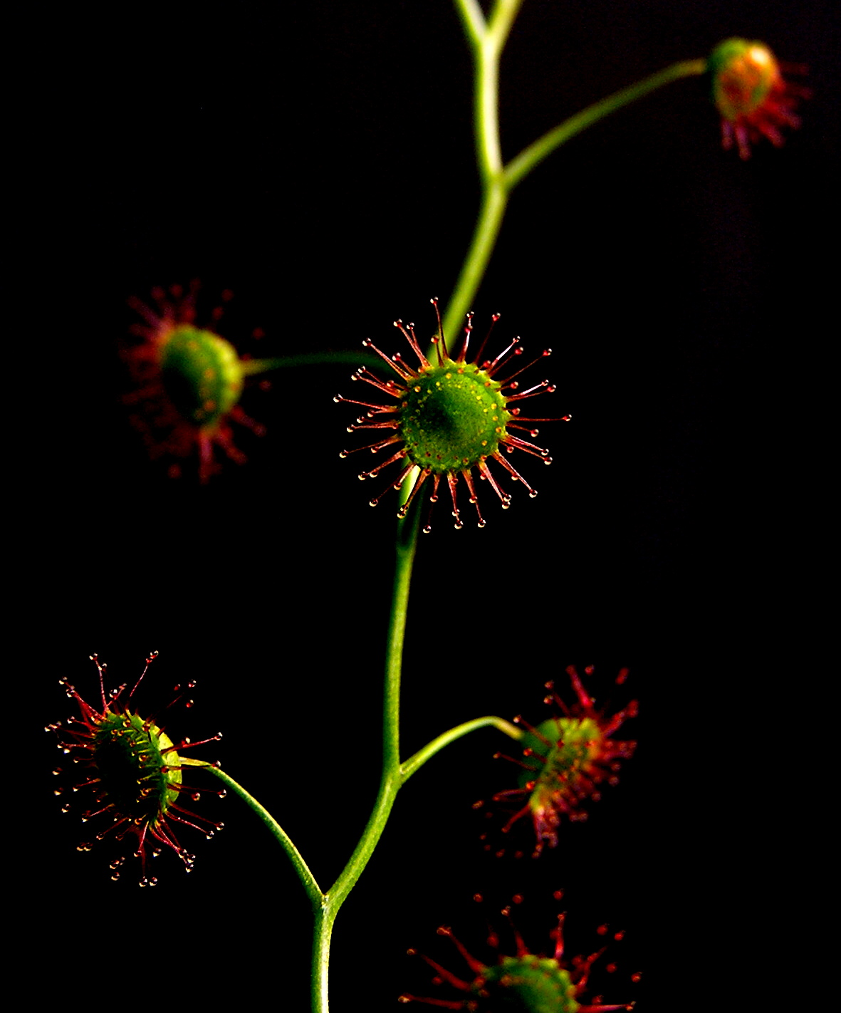 Drosera menziesii